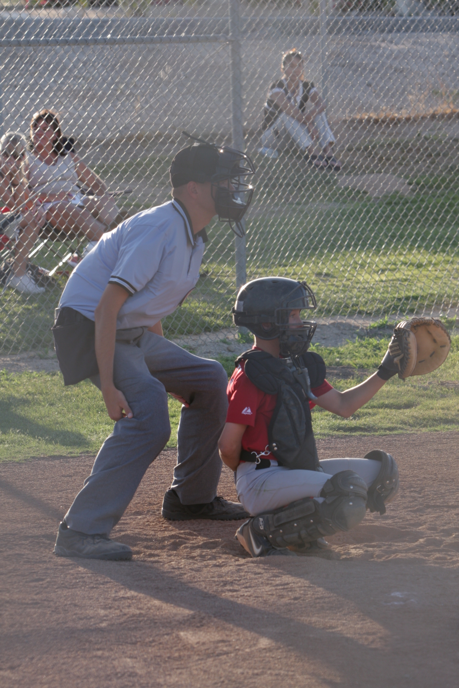 Cpl. Jeremiah Thalheimer, a volunteer umpire for the local Little League and umpire for the Morongo Basin high schools, crouches over the plate to make the call during a Little League game at Luckie Park in Twentynine Palms,June 1. Thalheimer, the special intelligence communications non-commissioned officer in charge at the Combat Center's Communications and InformationSystems directorate, and a Tifton, Ga., native, spends many off-duty hours working as an umpire in several local leagues as part of the CaliforniaBaseball Umpires Association.